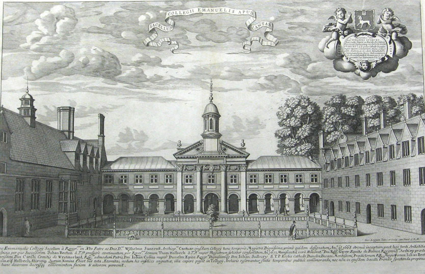 View of the Chapel at Emmanuel College, Cambridge by David Loggan, published 1690